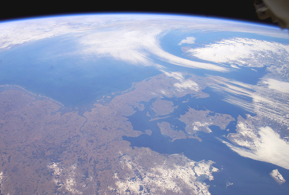 This astronaut photograph, taken on February 26, 2003, is centered on the Kingdom of Denmark. The entire region is overlain with deposits of Pleistocene glaciers. Taking advantage of remarkably fair weather over north central Europe for the time of year, the crew of the International Space Station took this panoramic view that extends from the North Sea coast of the Netherlands on the left to the Baltic Sea shores of Sweden on the right. The late-winter landscape has little snow cover except over northeastern Germany, Sweden, and the rugged mountains of Norway. Such images, composed by astronauts, provide unique, synoptic perspectives of the Earth's geography and natural processes. Image Credit: NASA